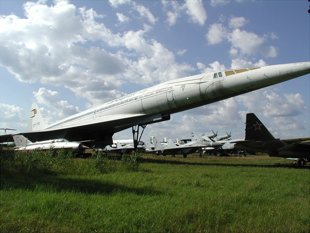 This Tu-144 was the first supersonic airliner to land on a dirt runway. Throughout its history Tu-144 combined Russian aviation pride, hope, sorrow, and shame.